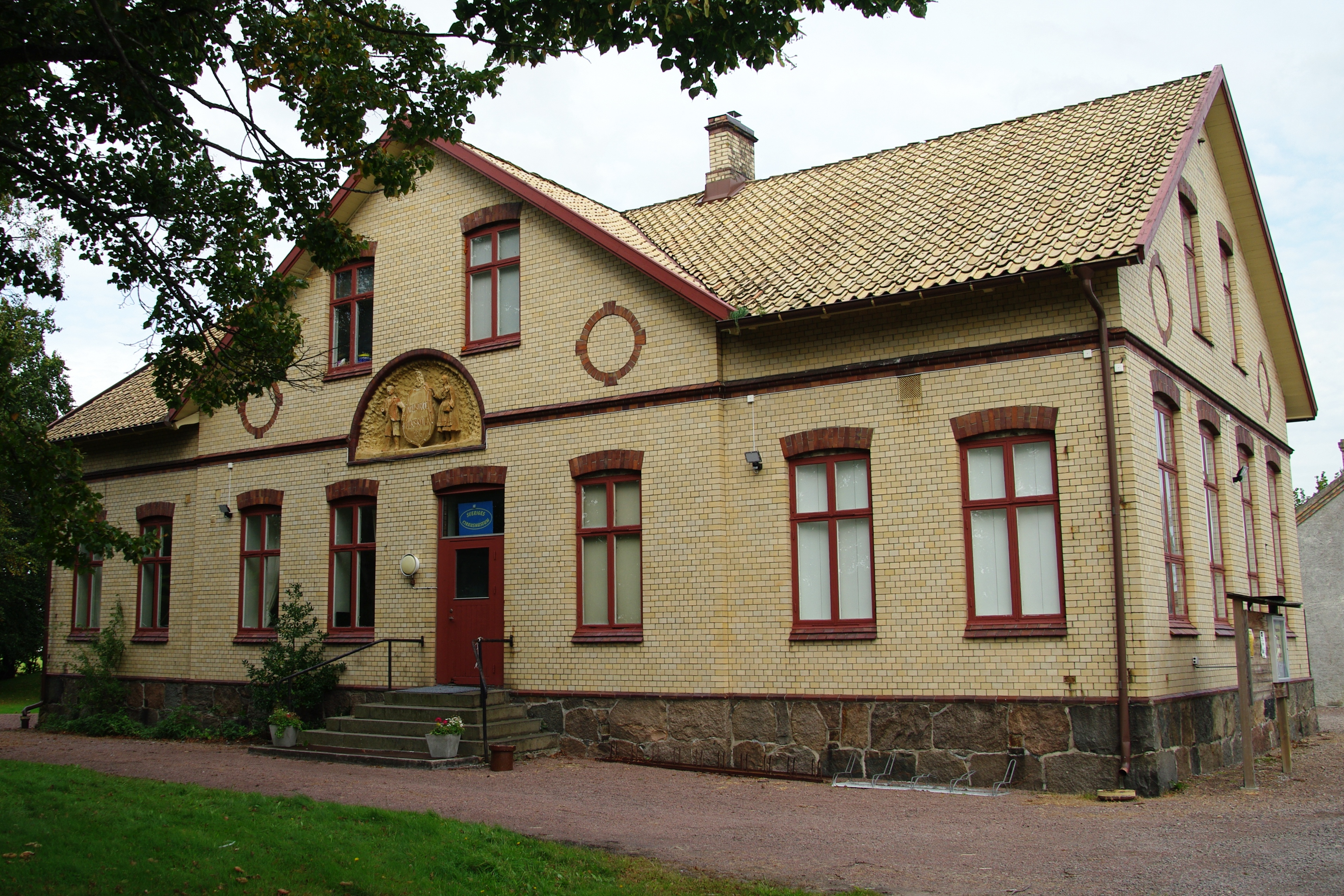 Swedish Circus Museum. Situated in the former School of Ingelsträde. Höganäs.